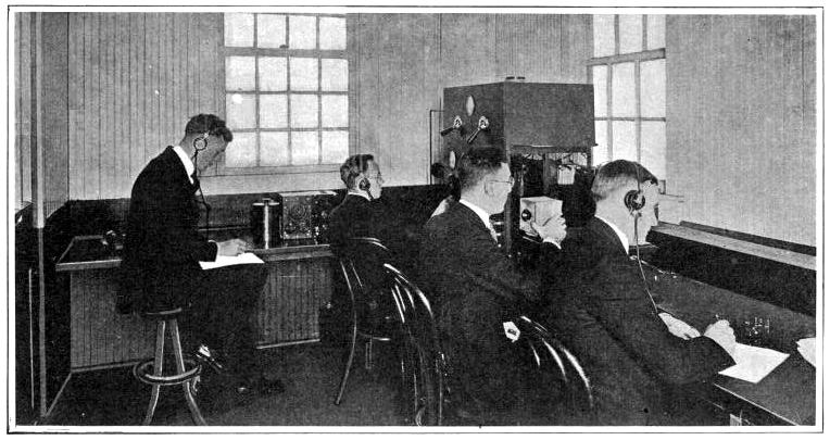 Circa 1921 photograph an early transmission room used by radio station KDKA. Original caption: "Still another radio-phone broadcasting station, showing the announcer and the receiving operators. This is KDKA of East Pittsburgh, Pa., the forerunner of all the other radio-phone broadcasting stations in the United States."